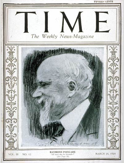 Raymond Poincaré on Time magazine cover, 1924.